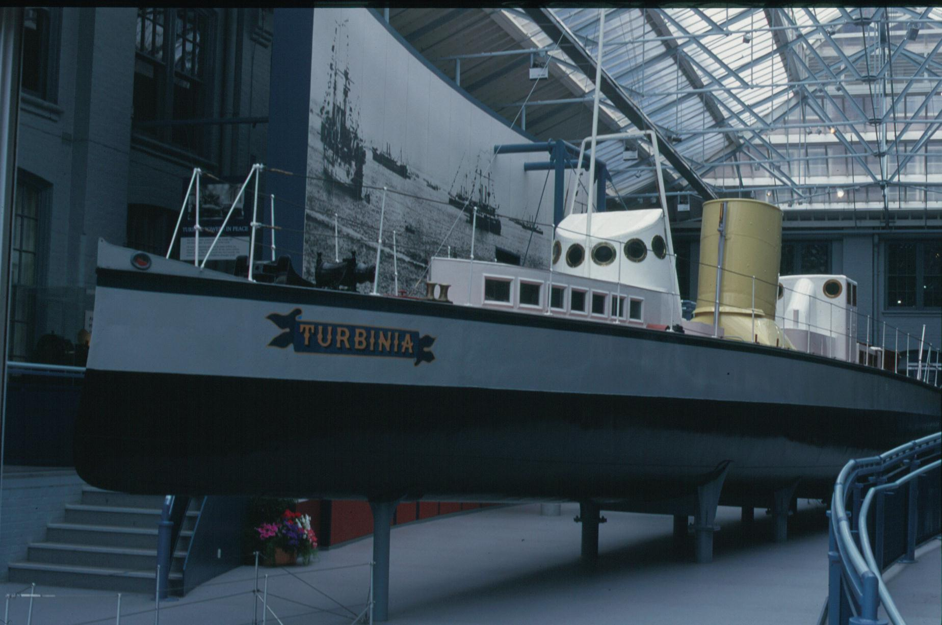 Turbinia inside the Discovery Museum, Newcastle, part of Tyne & Weat Archivbes & Museums Collection.